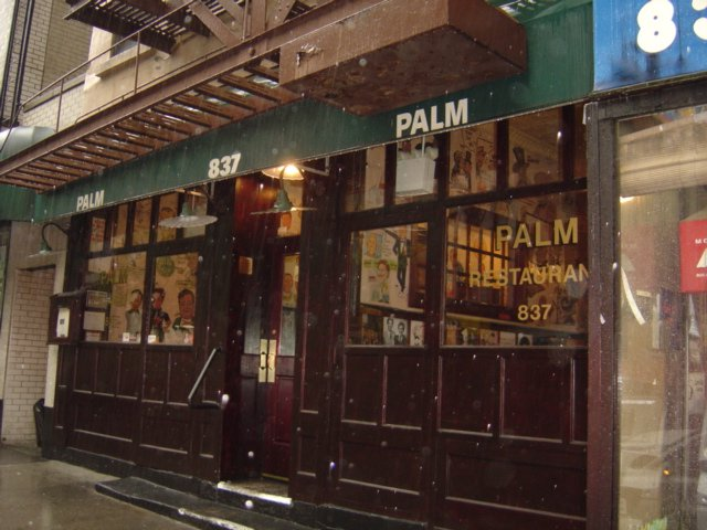 Exterior of the original Palm Restaurant in NYC